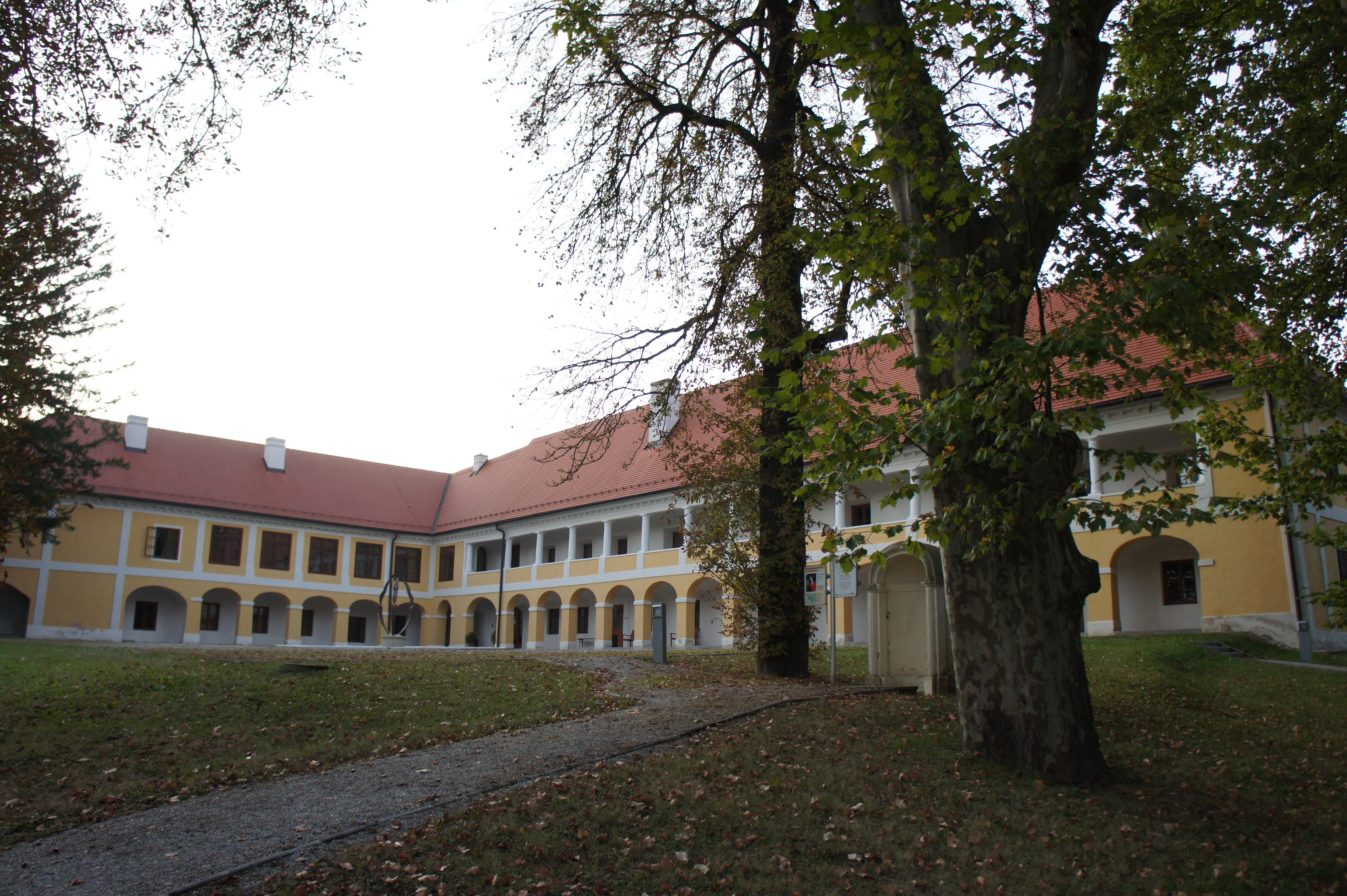 Castle Jormannsdorf, Bad Tatzmannsdorf, Austria